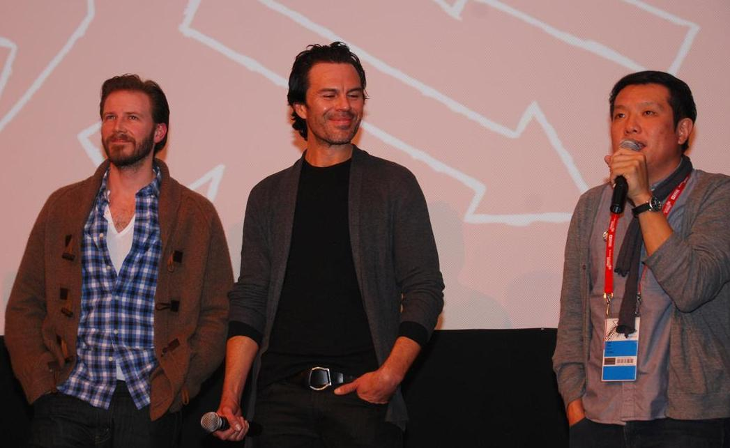 Stars Bill Heck, Marcus DeAnda, and director/co-writer Yen Tan